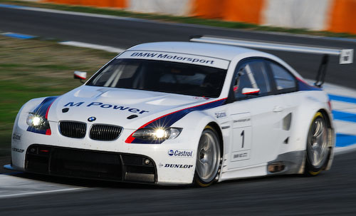 BMW M3 GT2 Testing in Estoril track Portugal Contribution by: Nikon D300 + Sigma 100-300